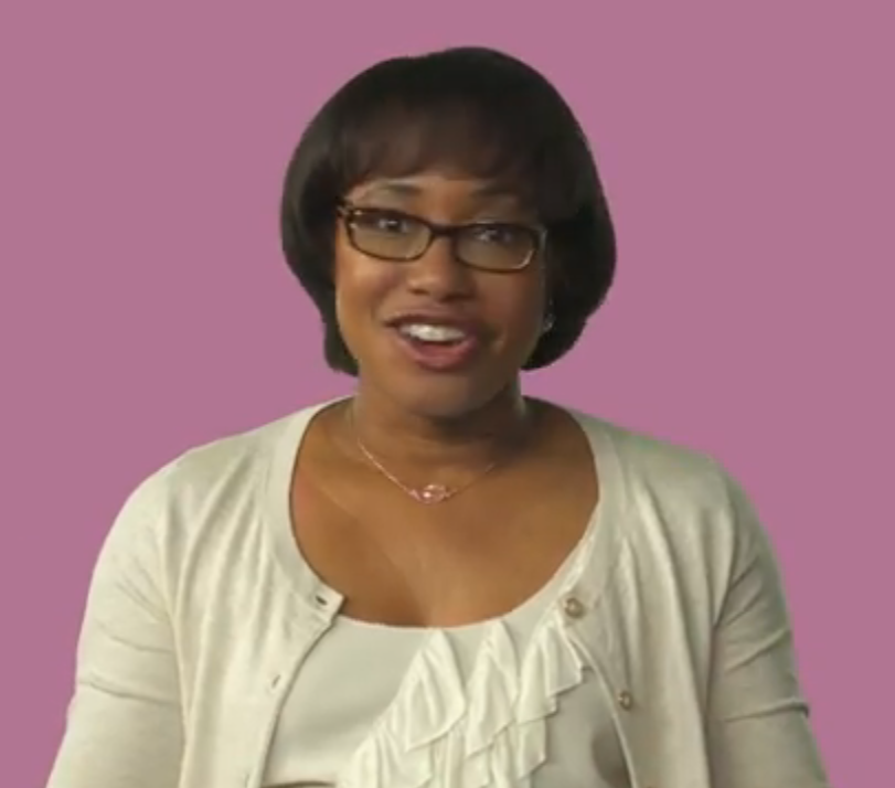 Image of chemist and entrepreneur Paula T. Hammond. The image is a screenshot from the Women in Chemistry video, created by the Chemical Heritage Foundation, in which she discusses her work.